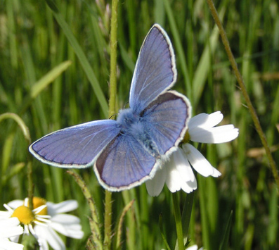 Polyommatus icarus